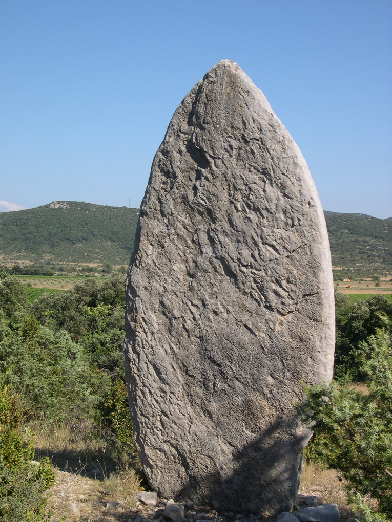 Date : 2007-07-28 Commune : Moules-et-Baucels (34) Sujet : menhir du Ginestous Auteur : MIb Mot-cle : bati